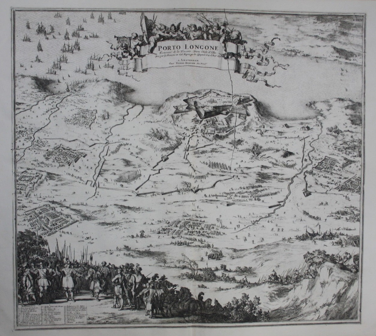 Siege of Porto Longone. Engraving from Pierre Mortier's Nouveau Théâtre de l'Italie, published in Amsterdam, 1704-1705. The caption reads (trans. from the French): Porto Longone. Fortress of Tuscany on the Island of Elba. Taken by the French in 1646, retaken by the Spaniards on 25 August 1650.